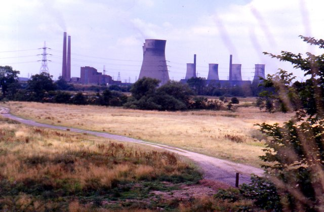 Fields near Whitacre Junction